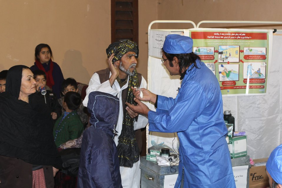 Community Health Workers in Kabul, Afghanistan at annual Community Health Worker Day in December 5, 2010